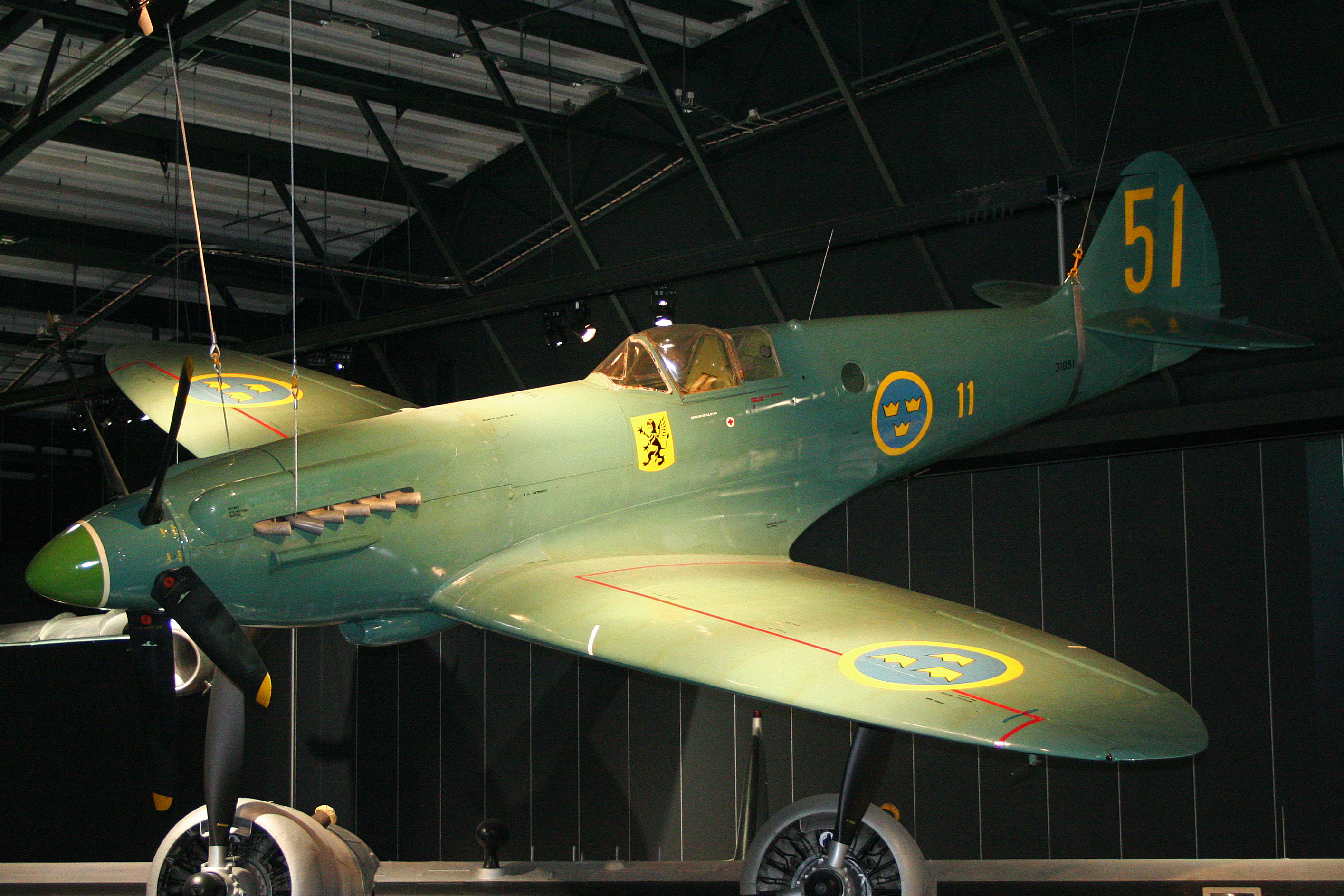 This Spitfire did not actually serve with the Swedish AF. After RAF service as 'PM627' it went to India where it flew as 'HS964'. It was later purchased by the Flyvapenmuseum and returned to Sweden to represent the types Swedish service. It was given the 'next-in-line' serial '31051' as the last actual service Spitfire was 31050. It certainly looks the part! Carrying F11 unit marks it is msn 6S/683524. On display in the Cold War Hall at the Flyvapenmuseum, Malmen, Sweden. 04-06-2012